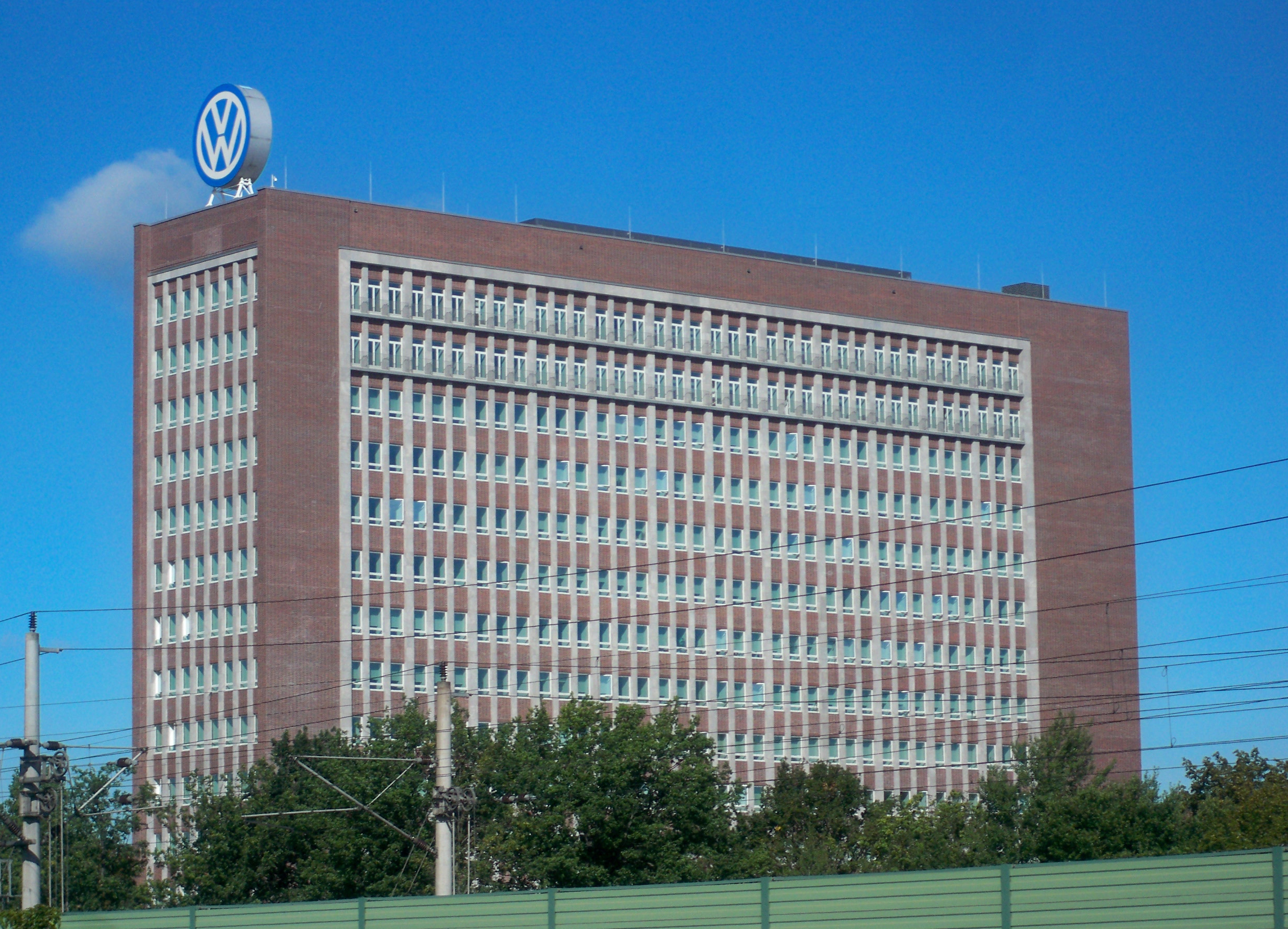 Wolfsburg, Volkswagen, former headquarters after renovation in 2015/2016